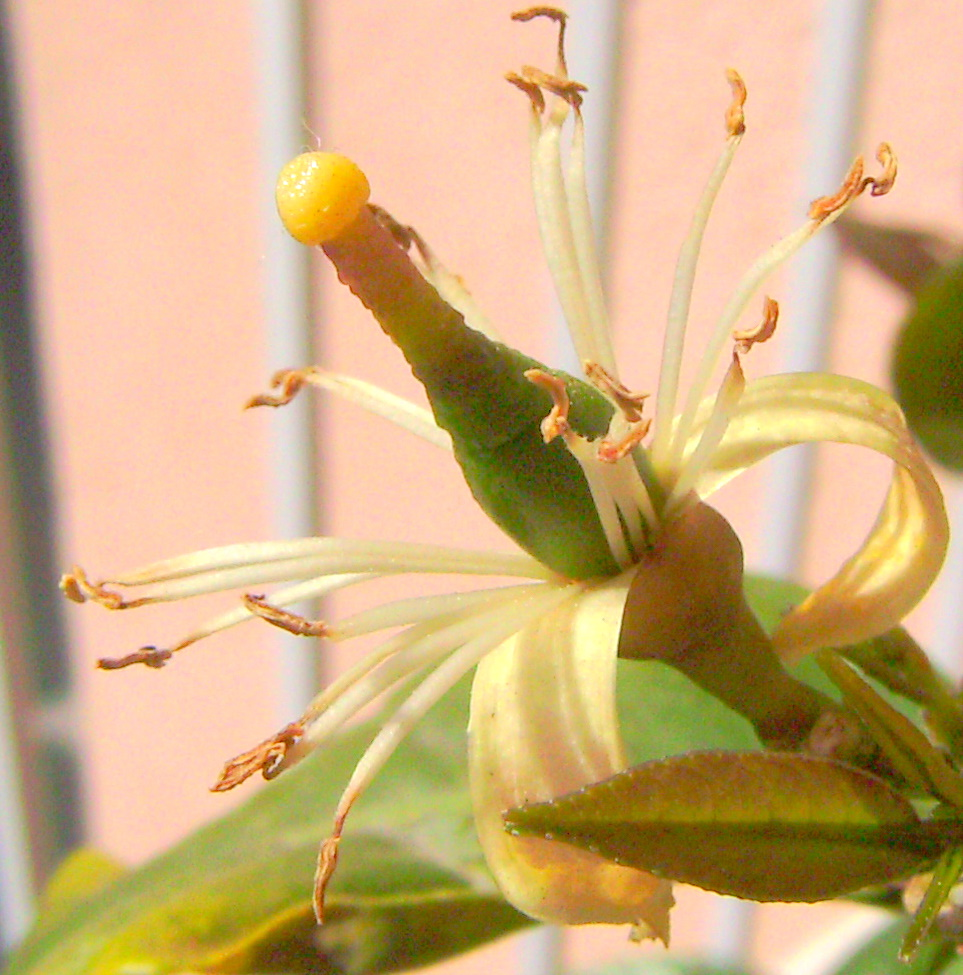 A lemon tree flower, the gynoecium is surrounded by the androecium. Barcelona, Catalonia